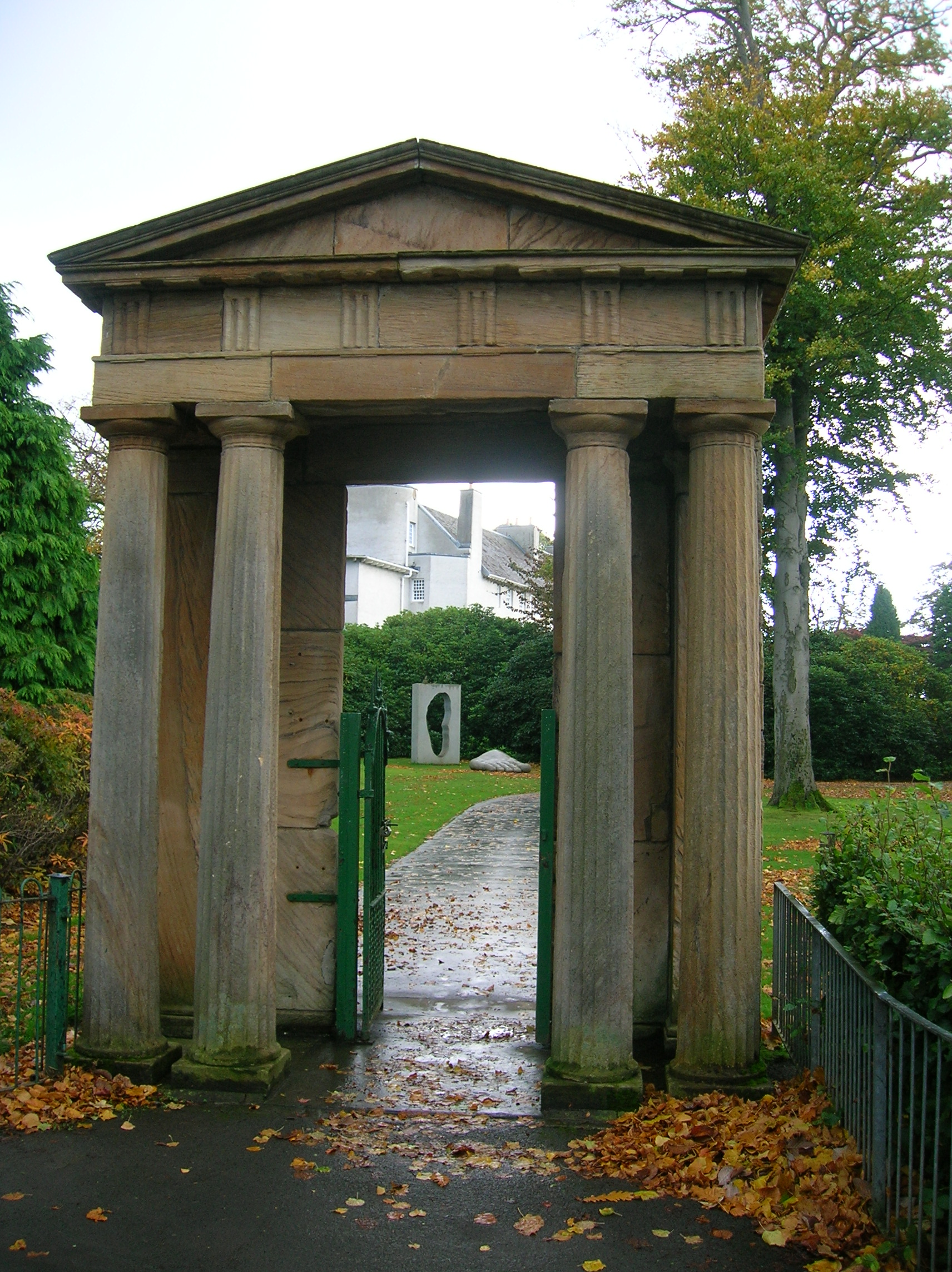 The portico from the demolished Ibroxhill House in Bellahouston Park, Glasgow, Scotland.